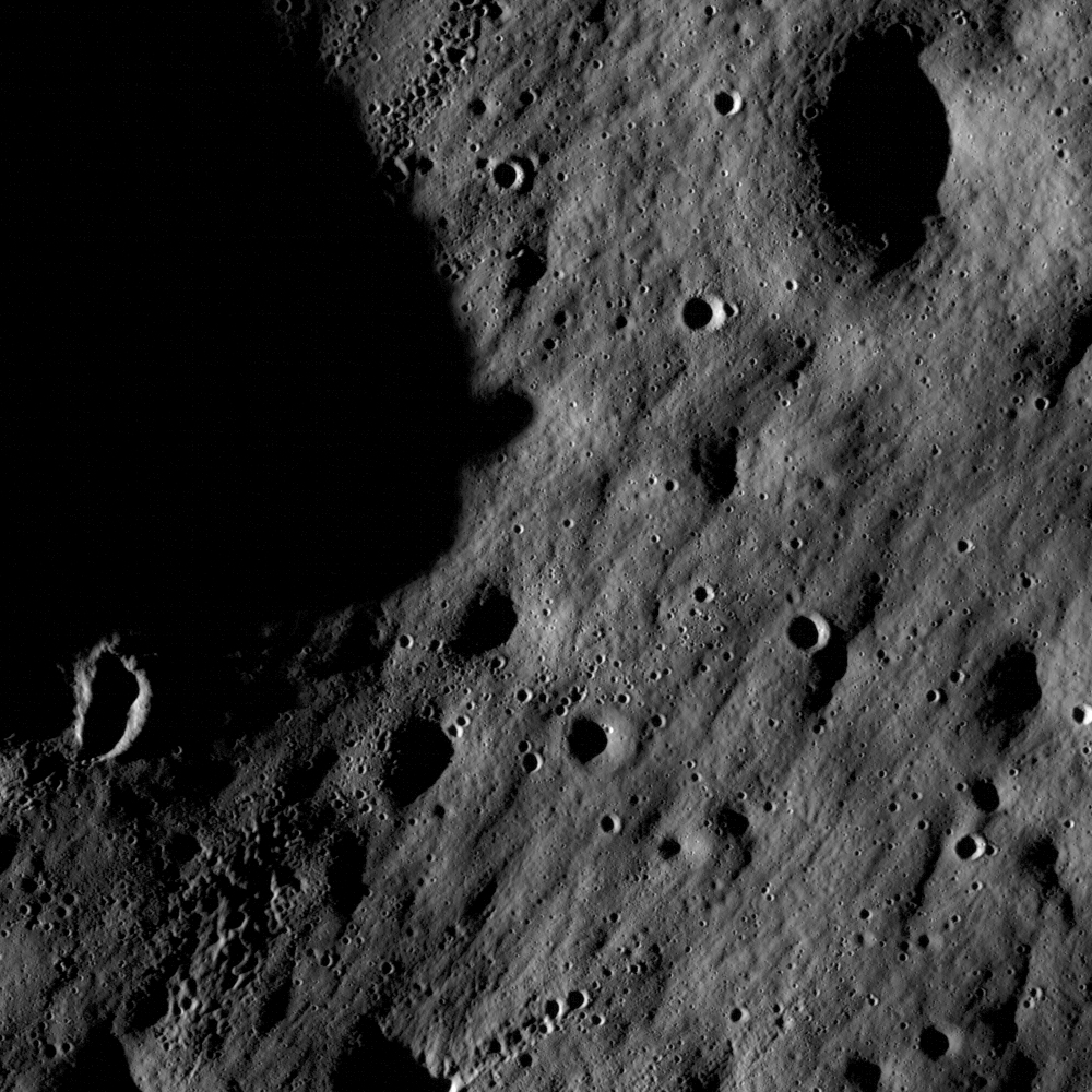 One of the first images produced by the Lunar Reconnaissance Orbiter. Regions near the moon's Mare Nubium region, as photographed by the Lunar Reconnaissance Orbiter's LROC instrument. The spacecraft transmitted its first images of the lunar surface captured with the LROC that were activated on 2009-06-30. The area that has been imaged is a few kilometers east of Hell E crater in the lunar highlands south of Mare Nubium. The images were taken on a terminator, the dividing line between day and night. Each image shows a region that is 1400 meters wide with features as small as 3 meters wide discerned.